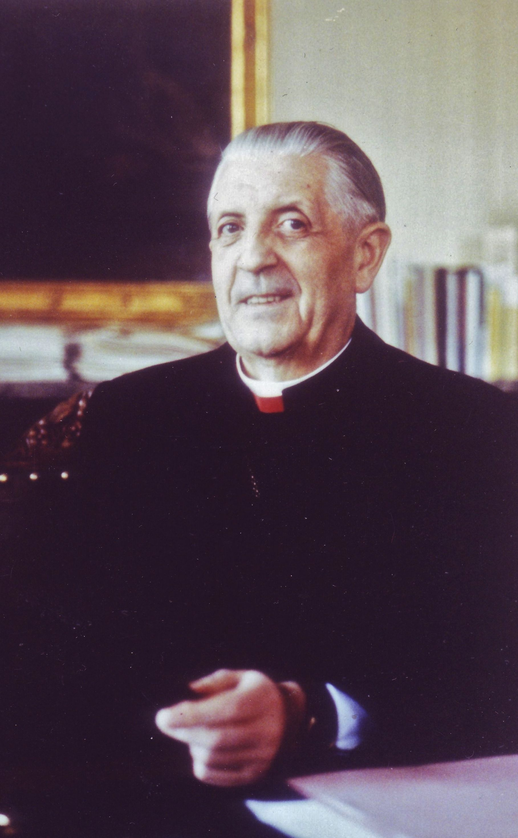 Cardinal Suenens